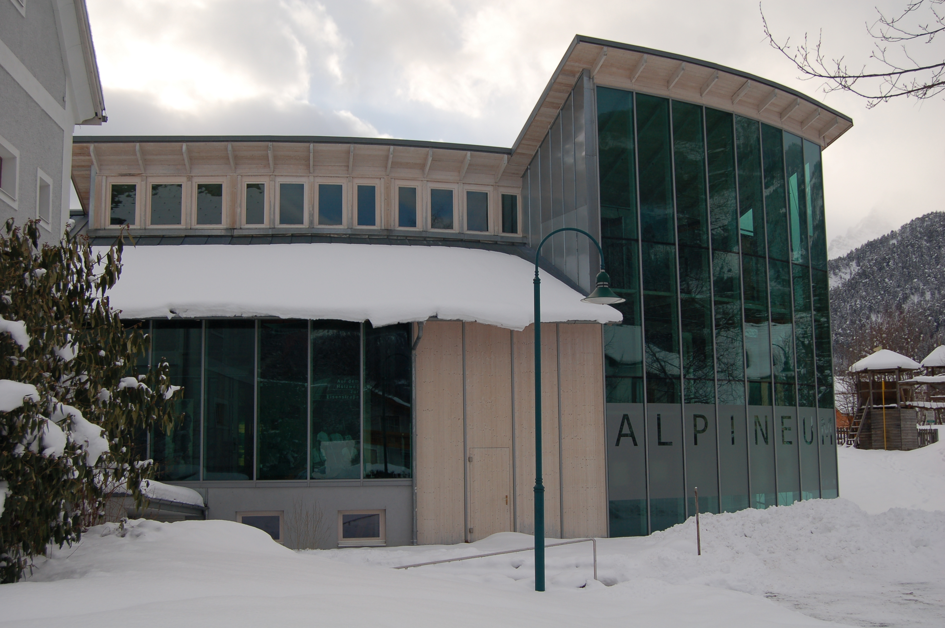 Alpineum, a mountain-museum, in Hinterstoder, Upper Austria.